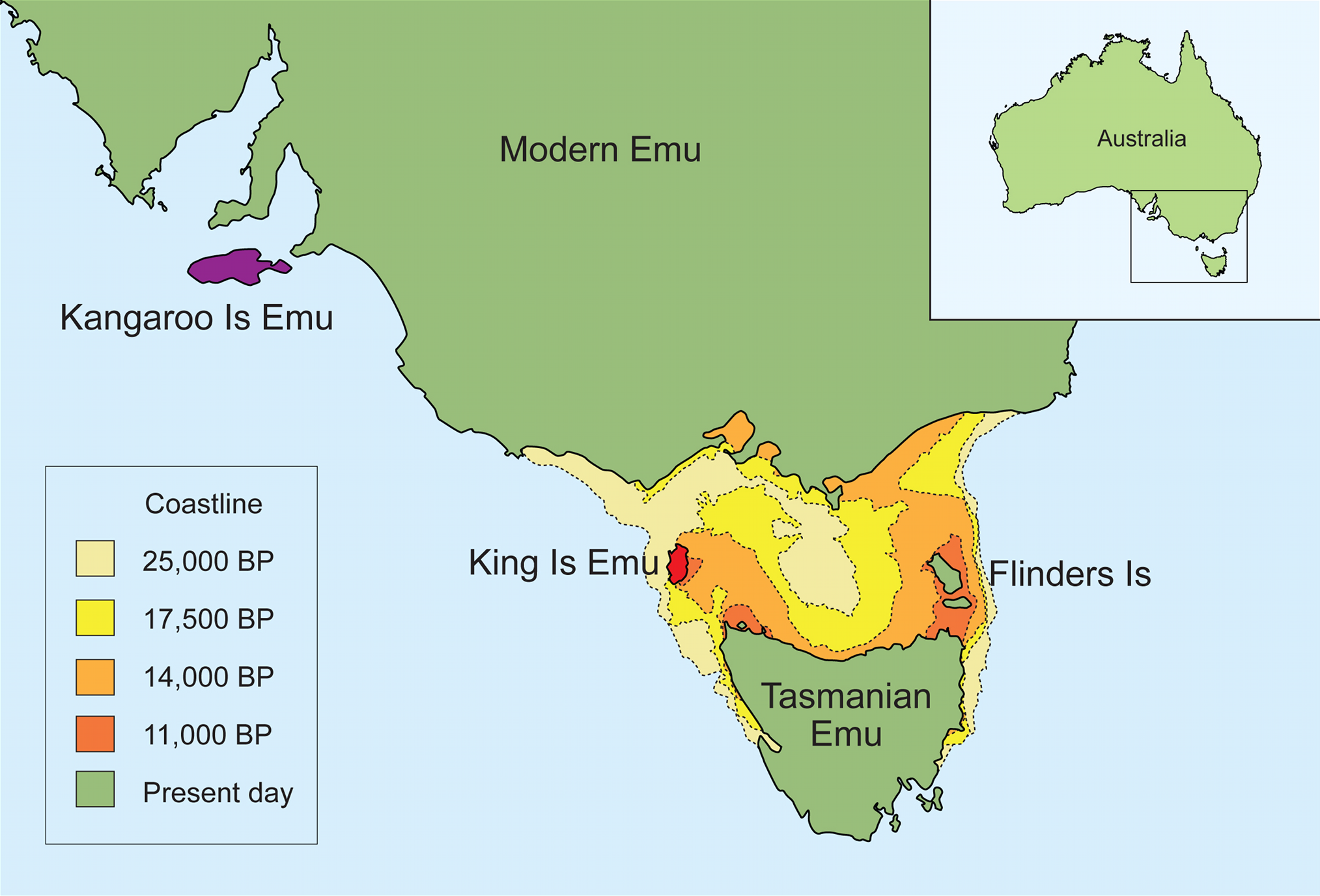 Geographic distribution of emu taxa and historic shoreline reconstructions around Tasmania. Modern Emu are currently found throughout mainland Australia. Extinct emu taxa were restricted to their respective islands: the Kangaroo Island Emu (purple), the King Island Emu (red) and the Tasmanian Emu. Twenty-five thousand years ago Tasmania, Flinders and King Island were connected to mainland Australia. Approximately 17,500 years ago King Island lost its direct connection with mainland Australia. By 14,000 years ago Tasmania, Flinders and King Island started to disconnect from the mainland, but were still connected to each other. By 11,000 years ago King Island was isolated from Tasmania, while the Tasmania was still connected to Flinders Island. Presently Tasmania, Flinders, King and Kangaroo Island are all isolated and disconnected from mainland Australia (modified from Lambert DM, Ritchie PA, Millar CD, Holland B, Drummond AJ, et al. (2002) Rates of evolution in ancient DNA from Adelie penguins. Science 295: 2270–2273